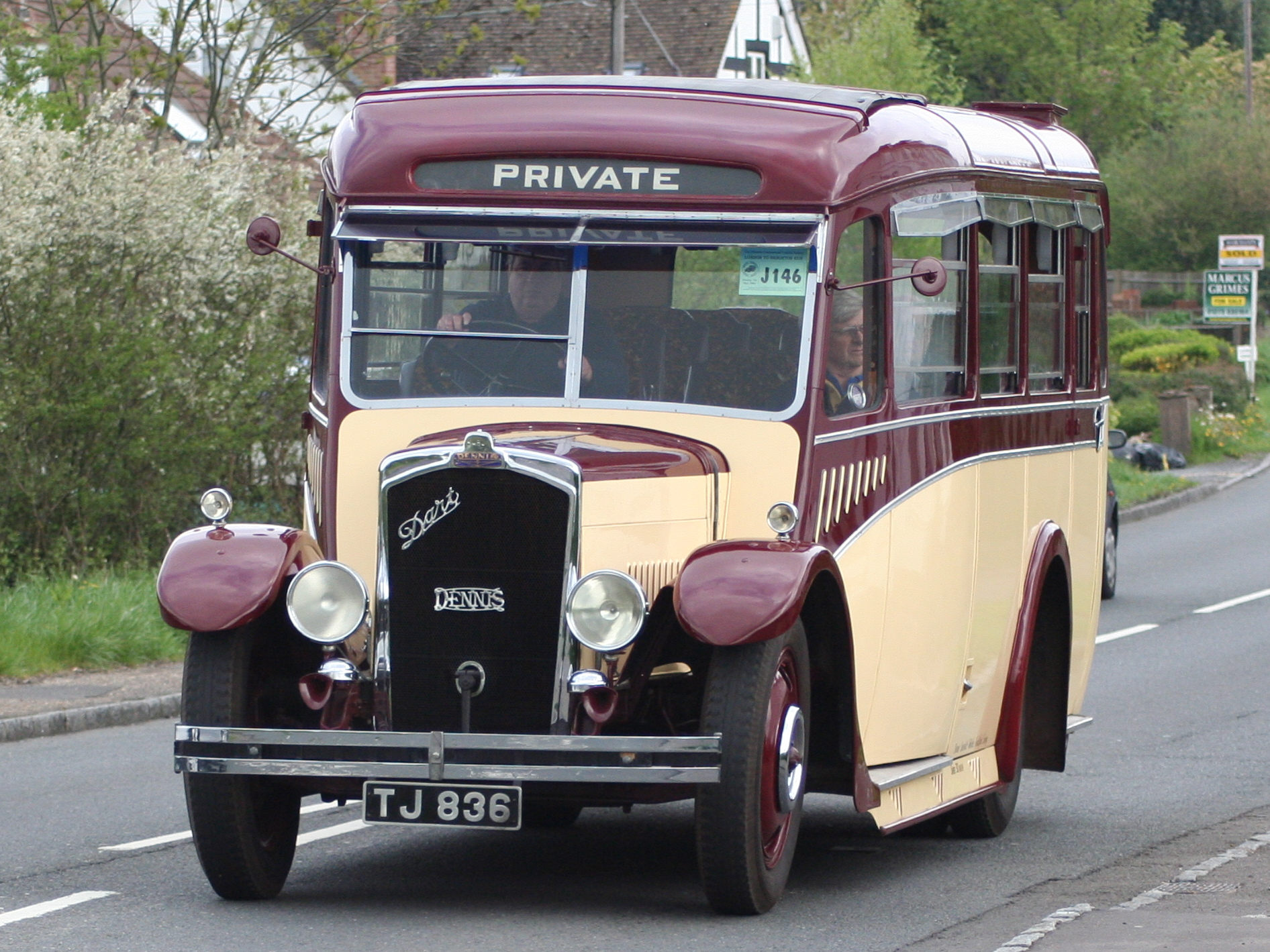 1933 Dennis Dart Duple body White Heather